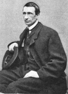 Bvt. Maj. Gen. John Watts DePeyster of New York (1821-1907)